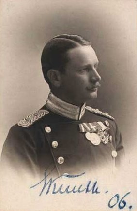 Eigil Valdemar Knuth (1866-1933), Danish Count and officer